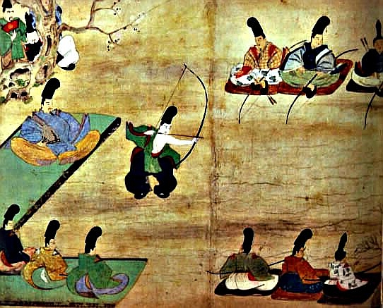 射手は菅原道真。国宝『北野天神縁起絵巻（承久本）』（鎌倉初期（北野天満宮蔵））から。 Archer : Sugawara no Michizane. From "Kitano-Tenjin Engi Emaki (Jokyubon)" is national treasure (early Kamakura era) (Kitano Tenman-gū collection).